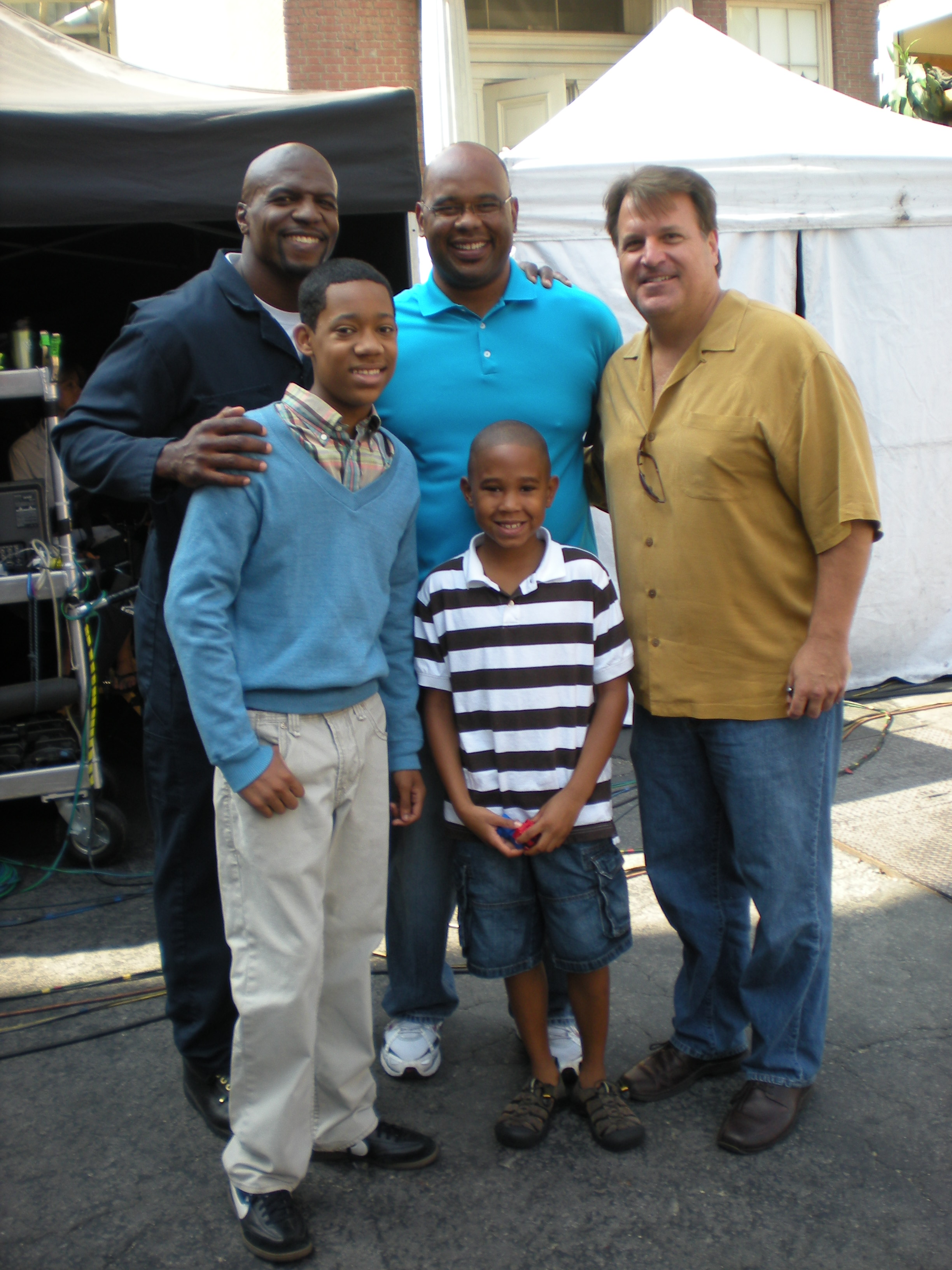 Chris lives with his family and siblings in a house. While his parents are busy working, he has to take care of the house and his siblings who are more confident than him.